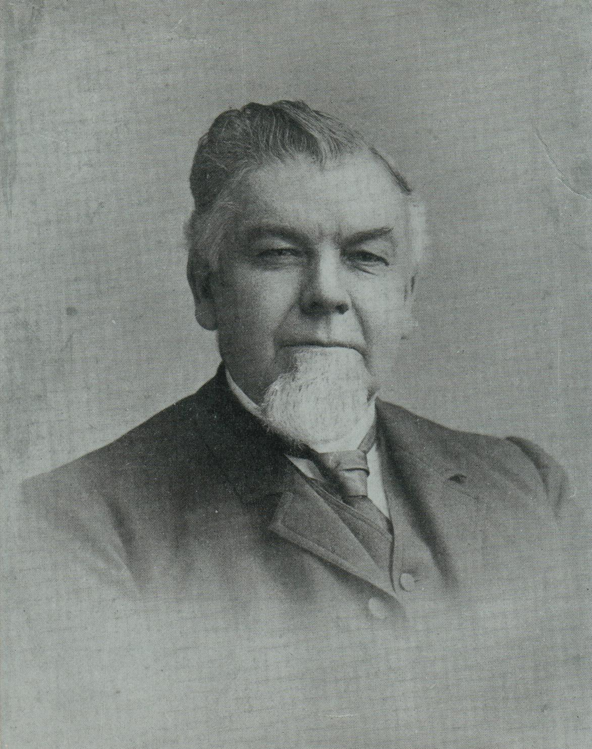 An undated photo of Stephen Head Farnam - circa 1880